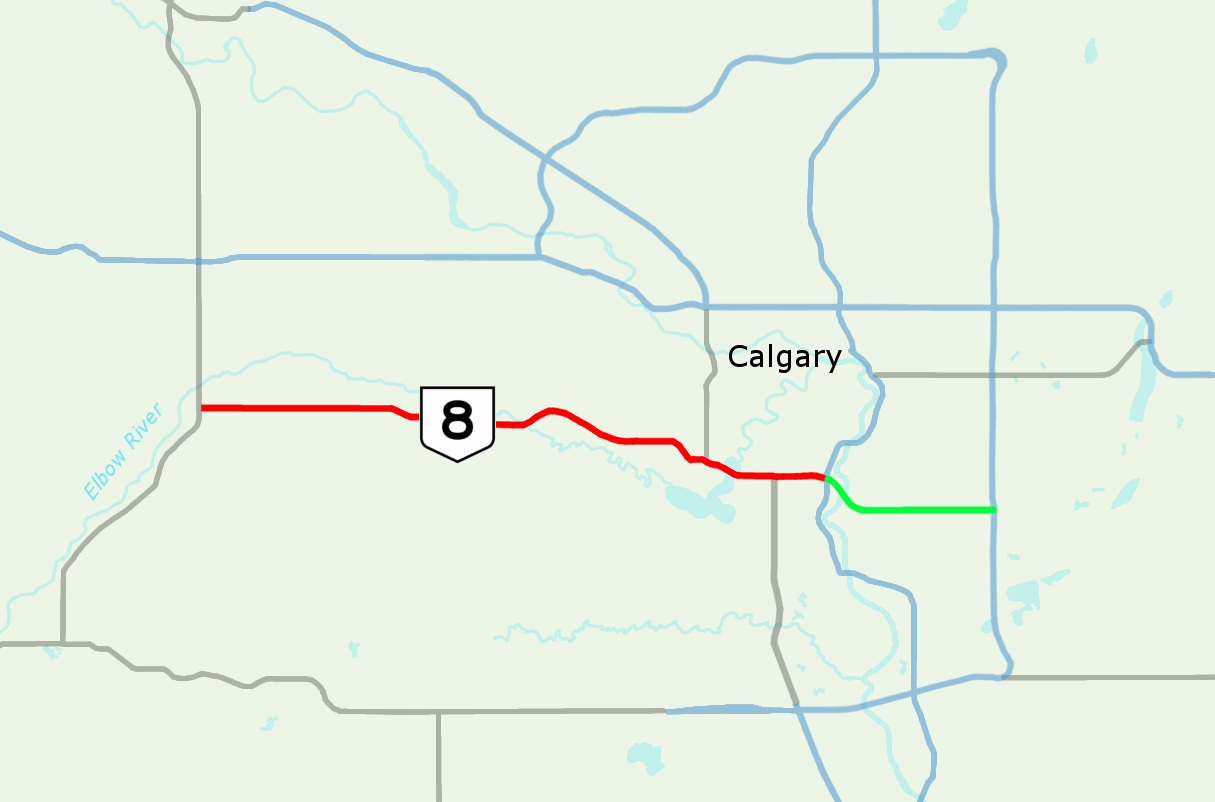 Created with OpenStreetMap